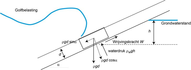 Stability of an asphalt slab on a slope under wave action